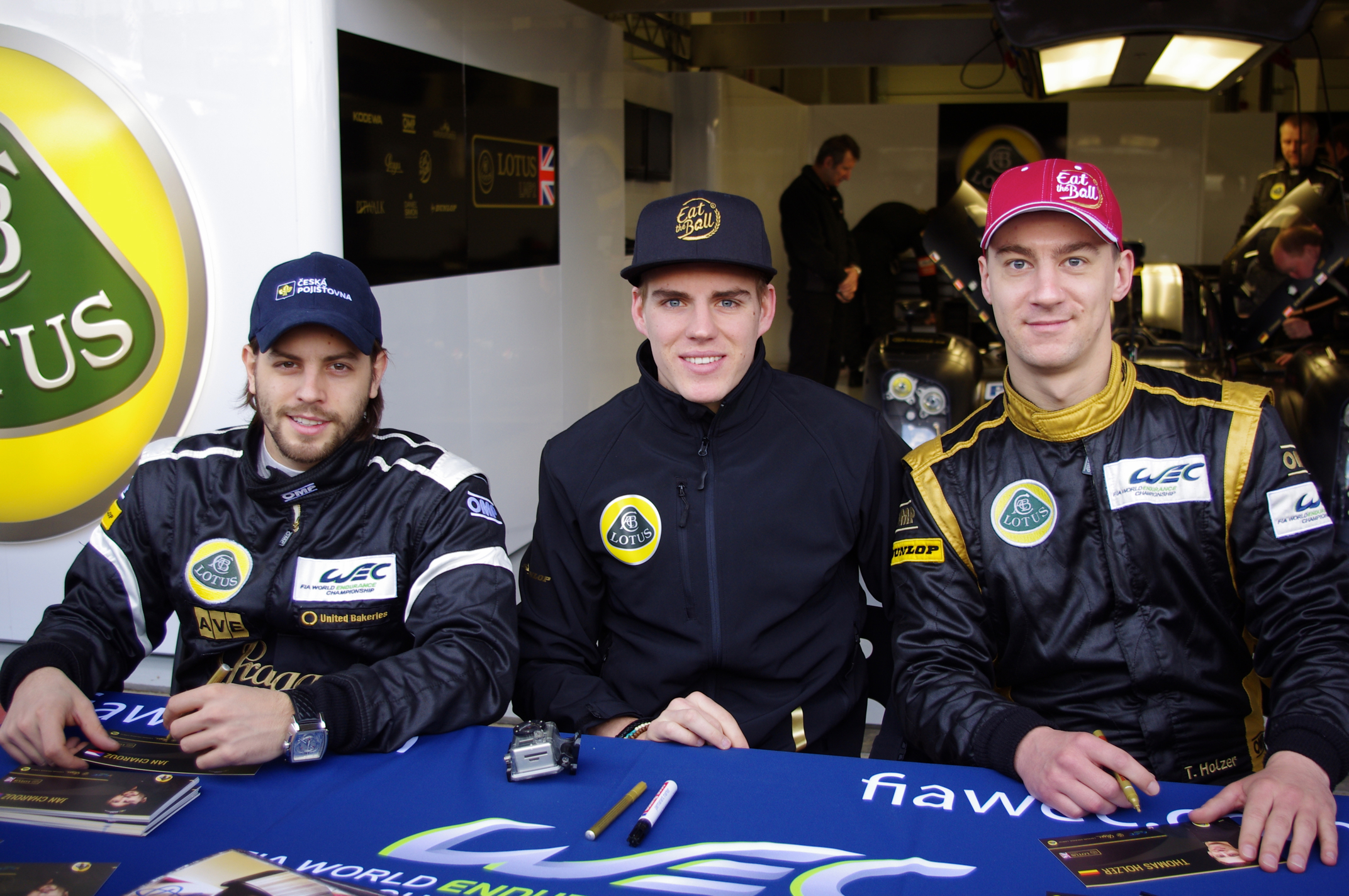 Silverstone 6 Hours 2013 FIA World Endurance Championship (WEC)